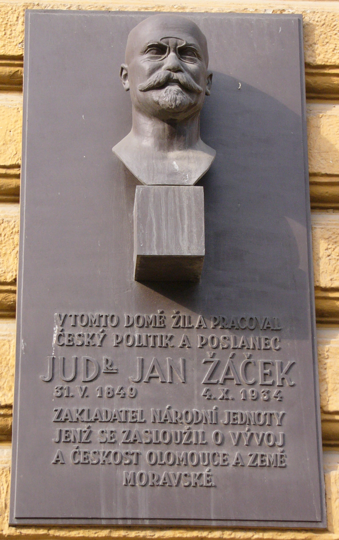 Memorial plaque and the bust of Czech politician Jan Žáček in 21 8. května street in Olomouc. Bust was made by Karel Lenhart in 1935.